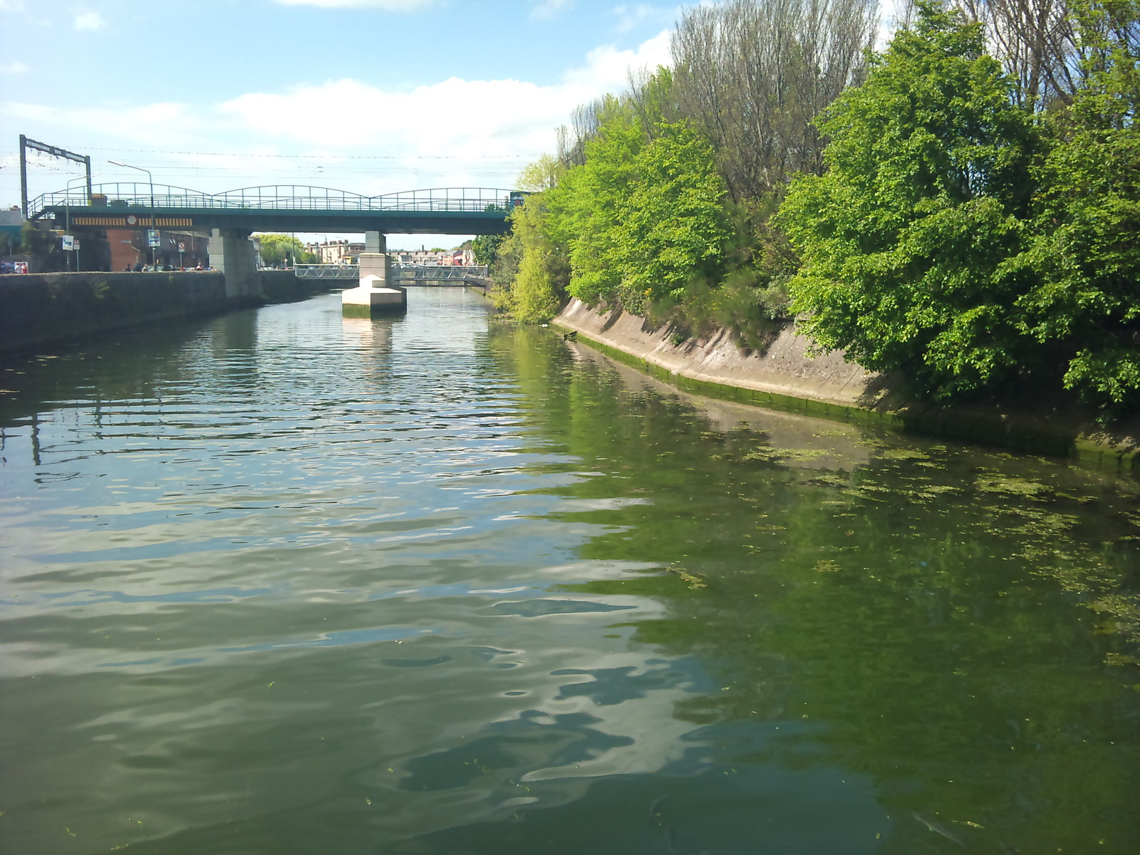 River Tolka (tidal) near mouth, with trees of Fairview Park